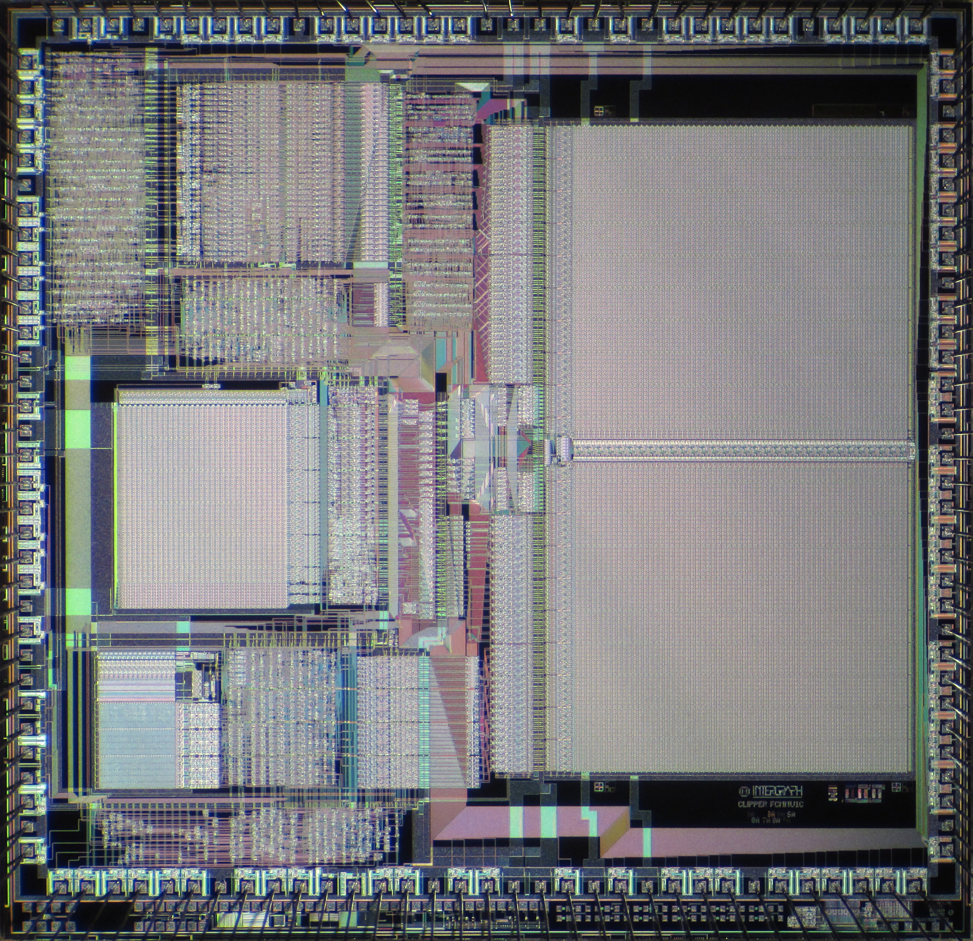 Die shot of Intergraph Clipper C300 cache and memory management unit (CAMMU) marked CYIM01409.